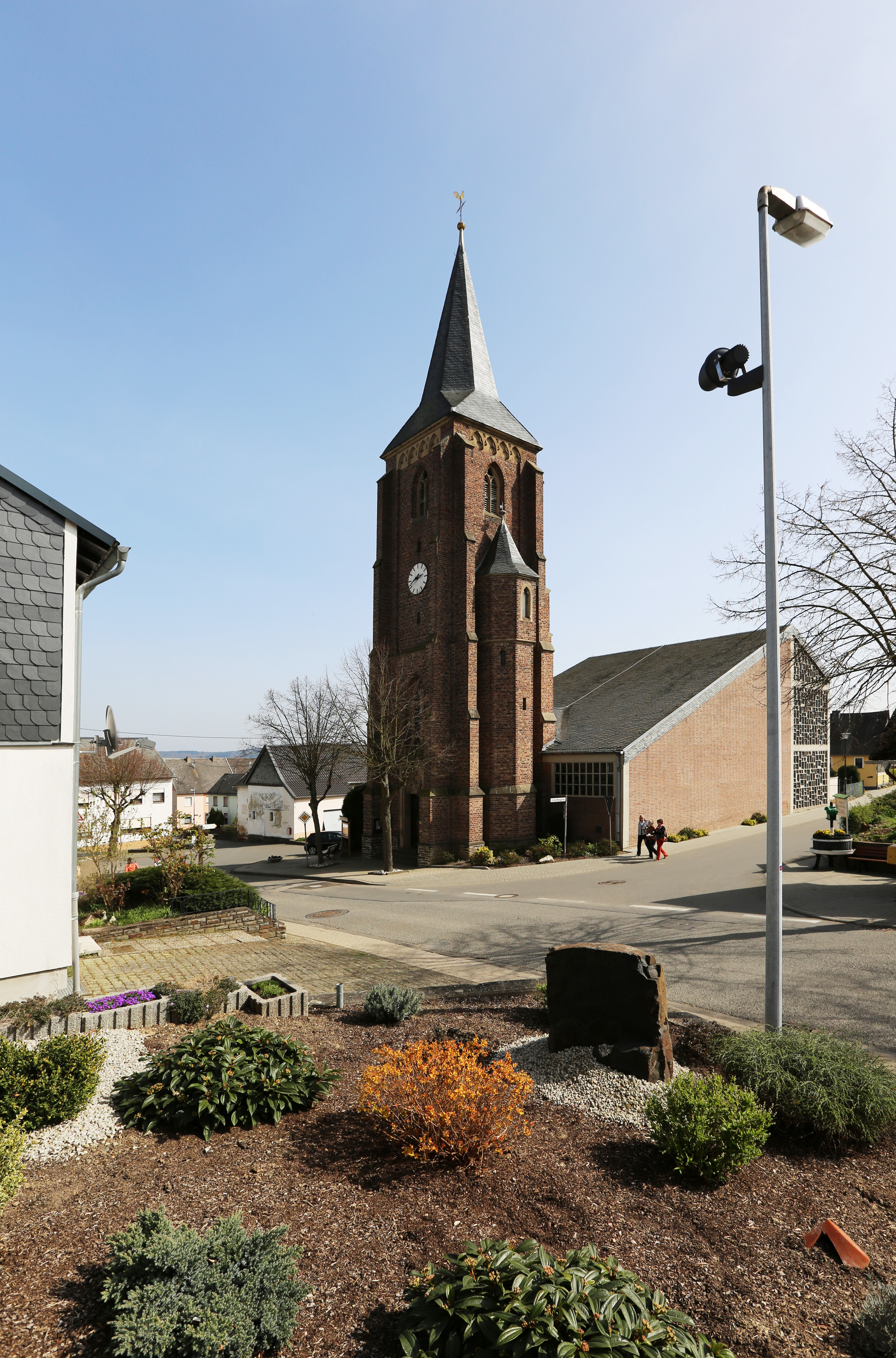 Roman Catholic Church in Dellhofen near Oberwesel/Rhine, Germany. The tower is built in 1875/76.